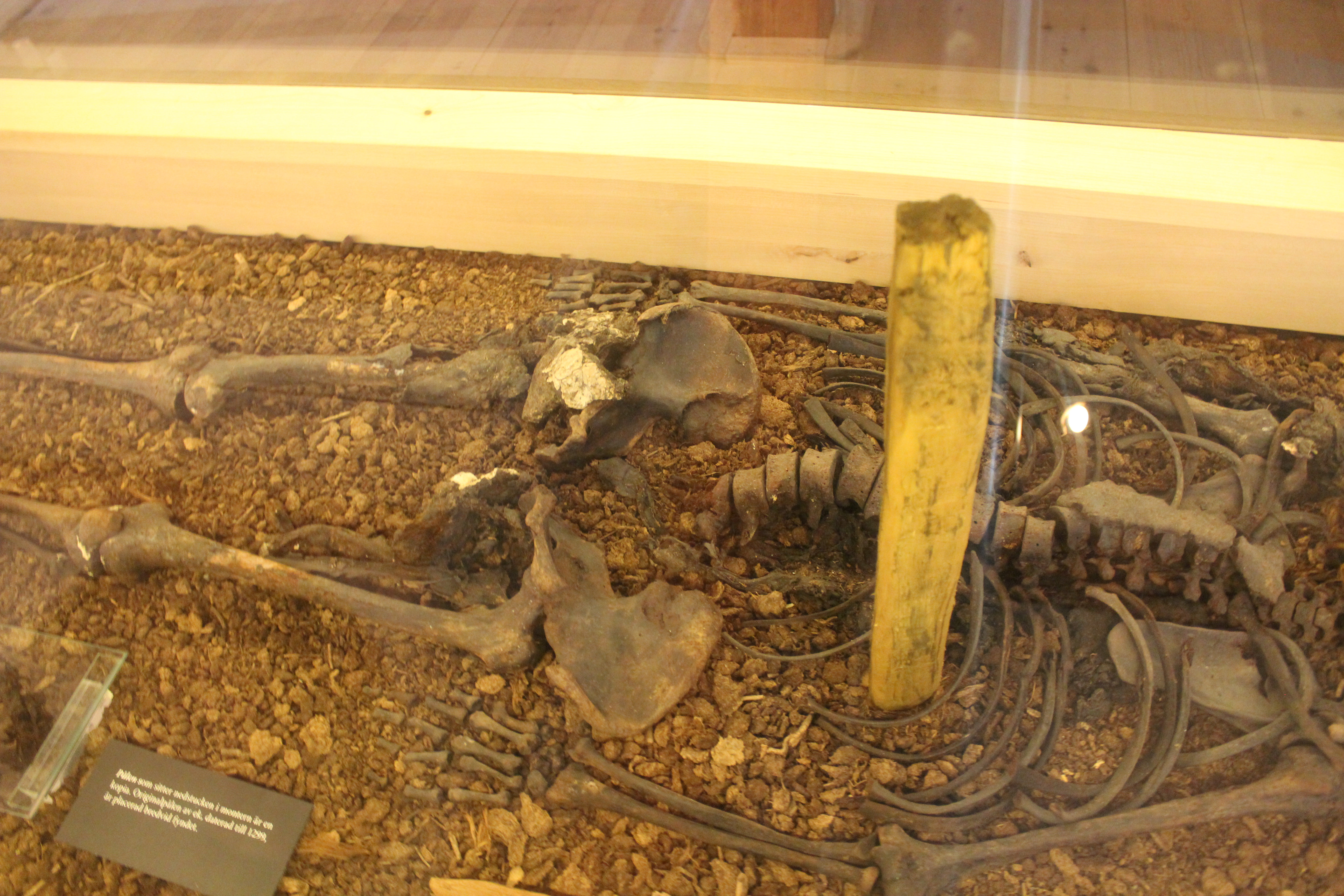 Stake in the body of Bockstensmannen.